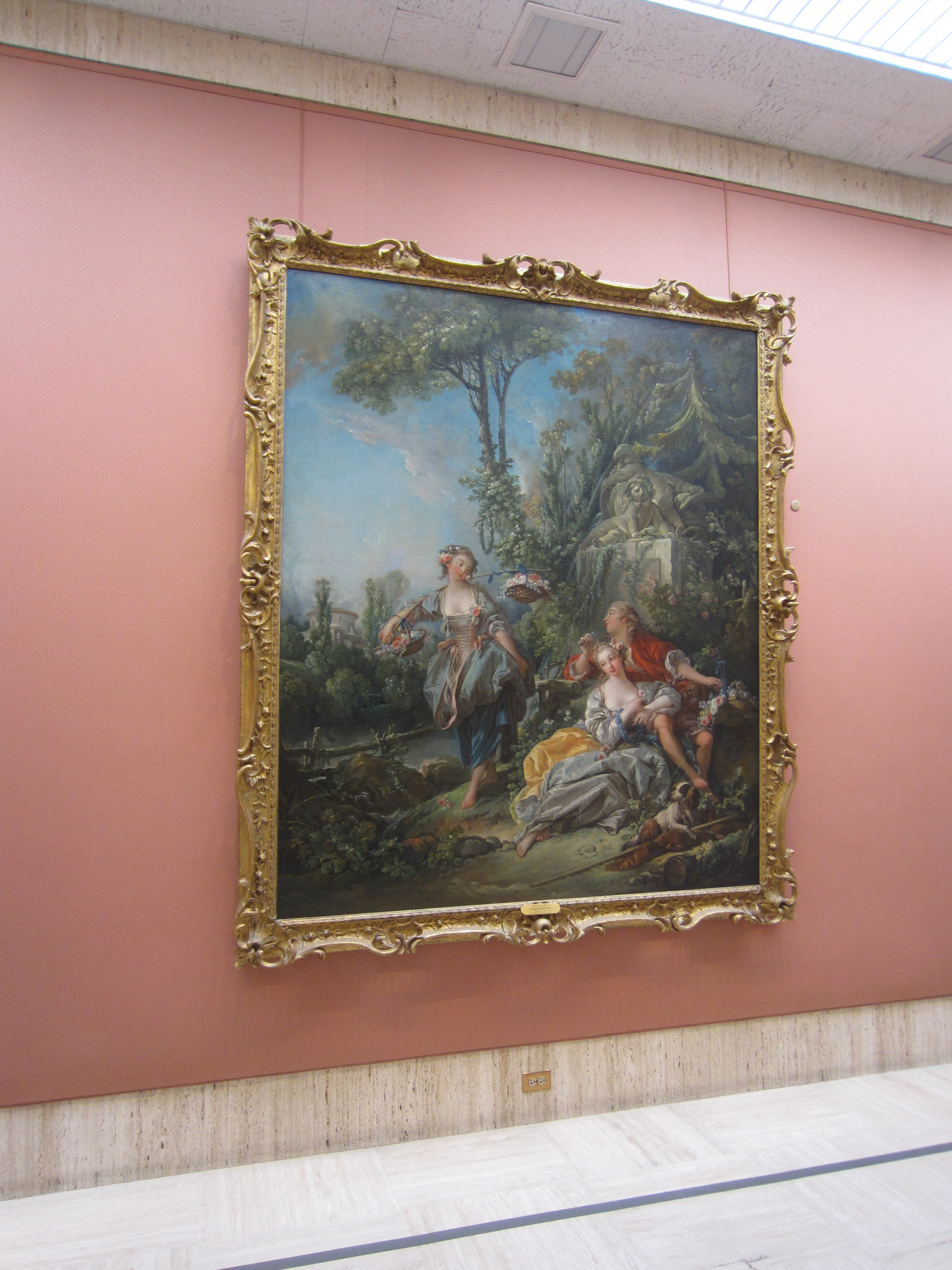 San Diego, California (October 2016)